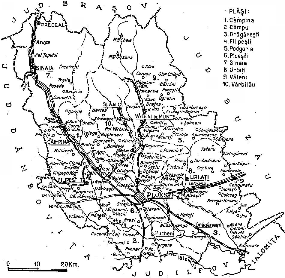 Map of Prahova interwar county, Kingdom of Romania (1938).